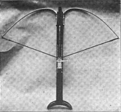 Picture of a gastraphetes. Note that this reconstruction as a metal bow is considered as an anachronism by modern scholarship.